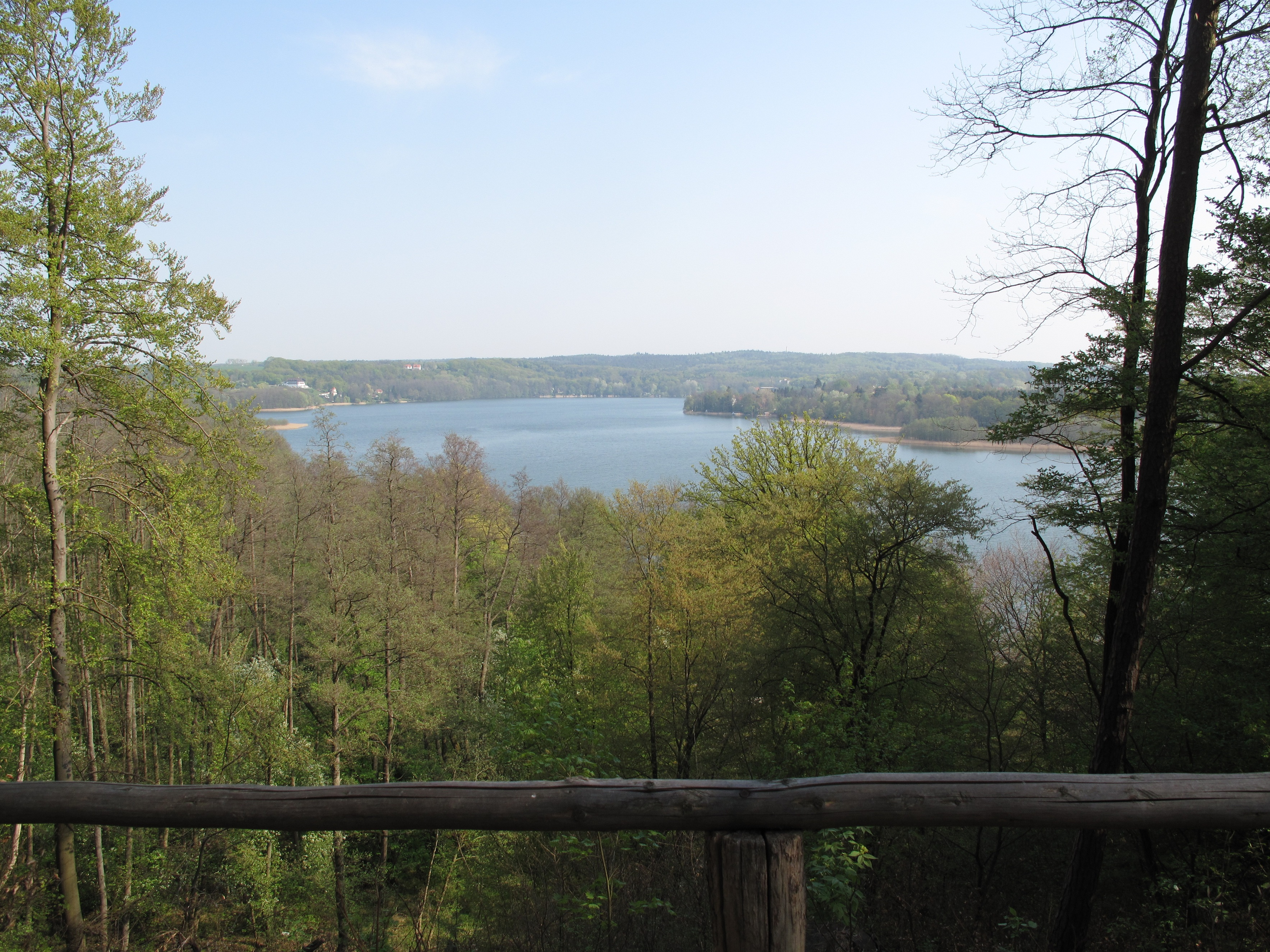 The Panoramaweg is a part of the approximately 7,5 kilometres long walking path around the Schermützelsee. The Schermützelsee is a lake in Buckow, District Märkisch-Oderland, Brandenburg, Germany. The lake covers 137 hectare and is the largest water in the hill country „Märkische Schweiz“ and in the Märkische Schweiz Nature Park.